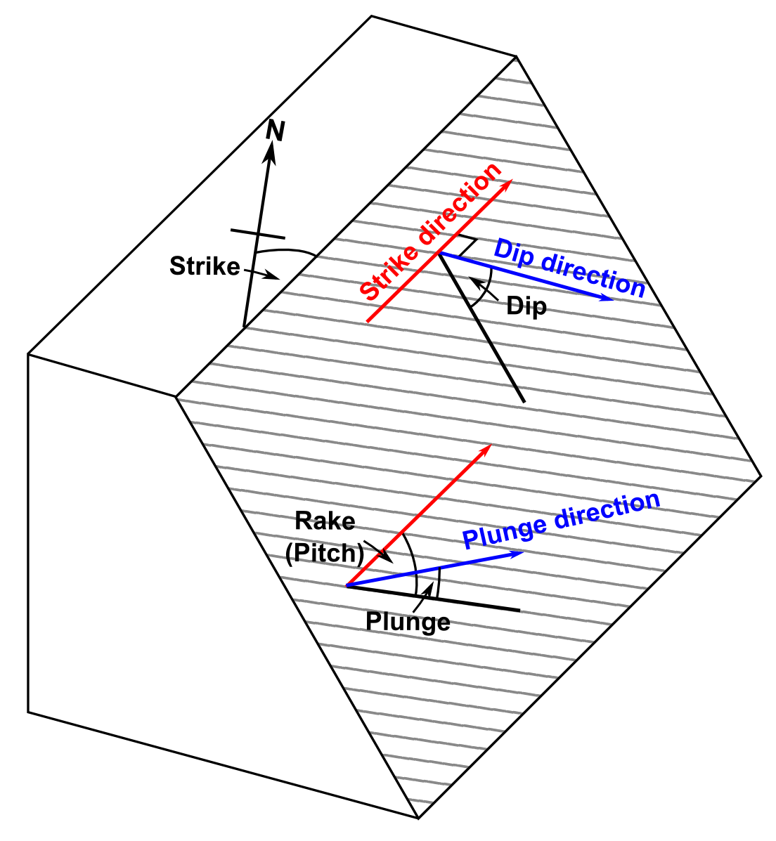 Illustration of the conventions used when taking orientation measurements in Structural Geology to replace existing file StrikeDipPlungeRake.jpg